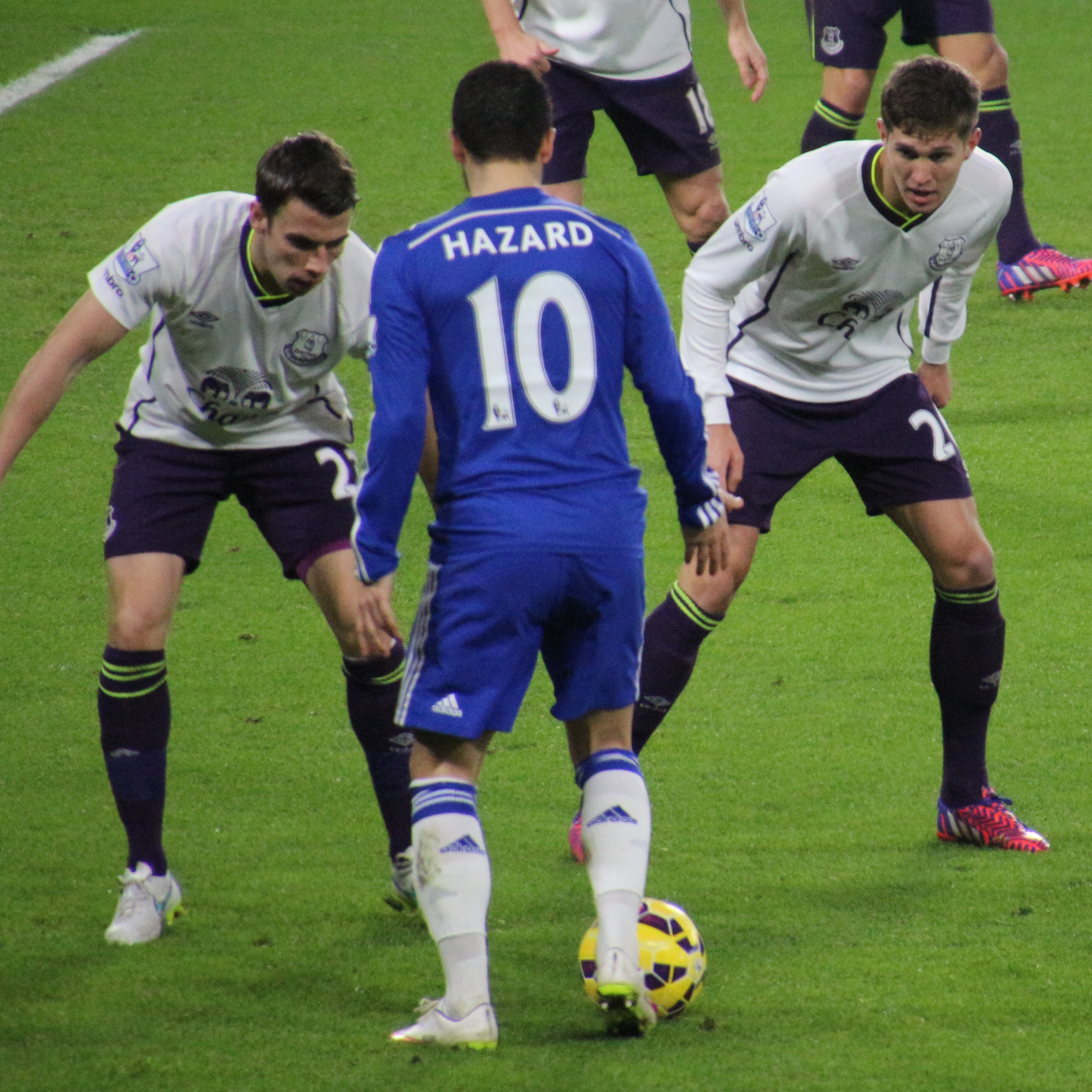 Chelsea 1 Everton 0